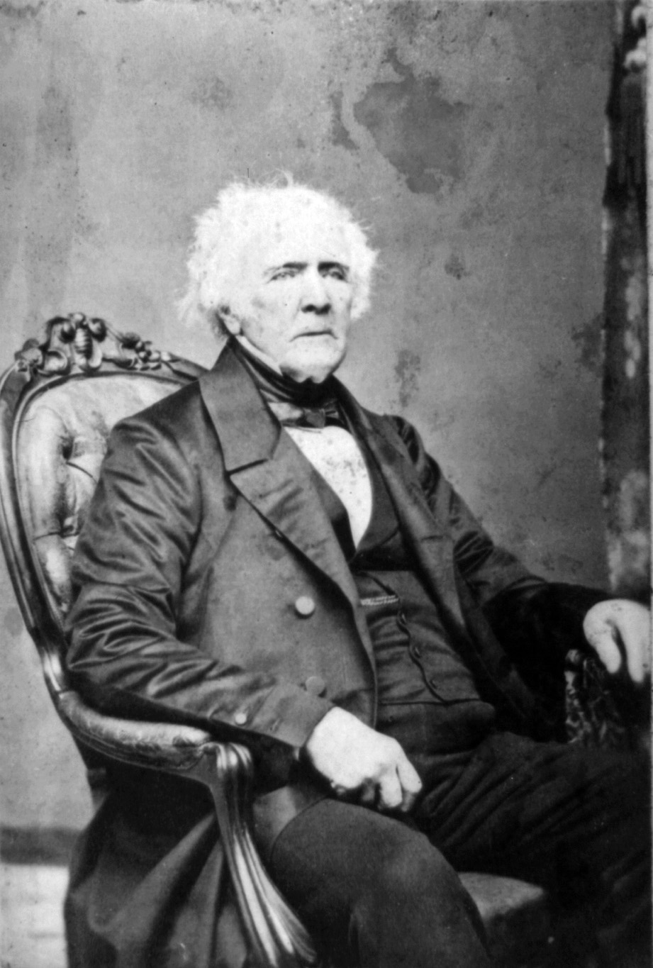 Horace Binney (1780–1875), U.S. Congressman from Pennsylvania